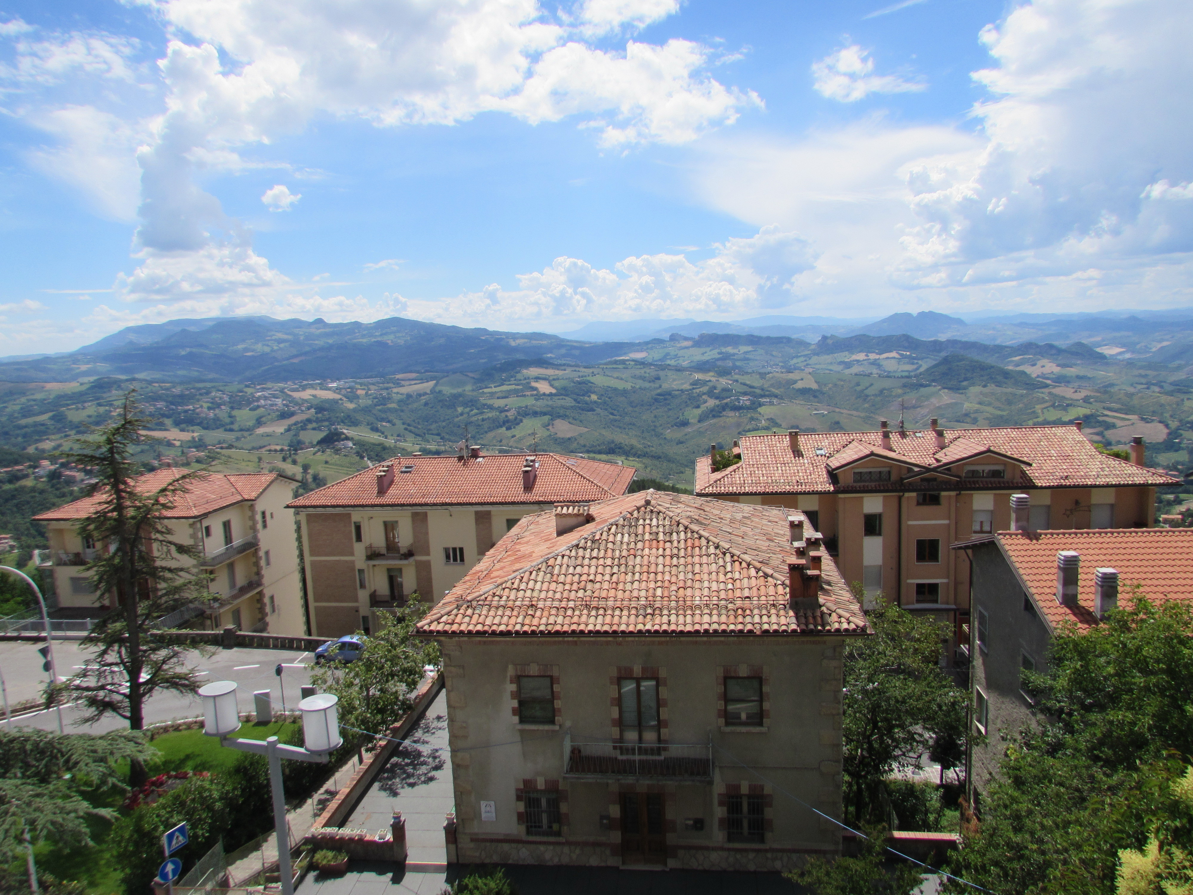 View of San Marino